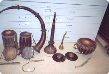 Panche Baaja, a set of five musical instruments which are very popular among hilly people of Nepal.